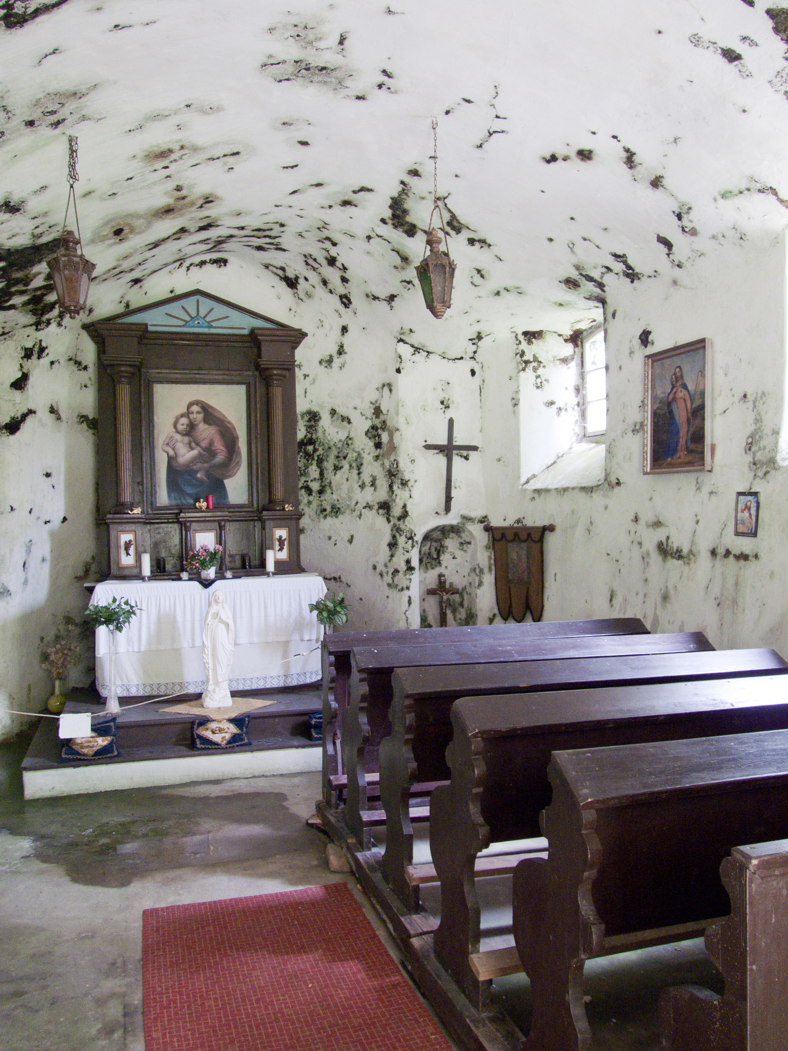 Interior of the Saint Ignatius rock Chapel in the village of Všemily, Děčín District, Czech Republic